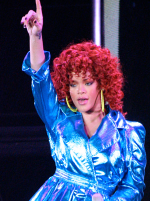 Rihanna Live at Target Center on her LOUD Tour.